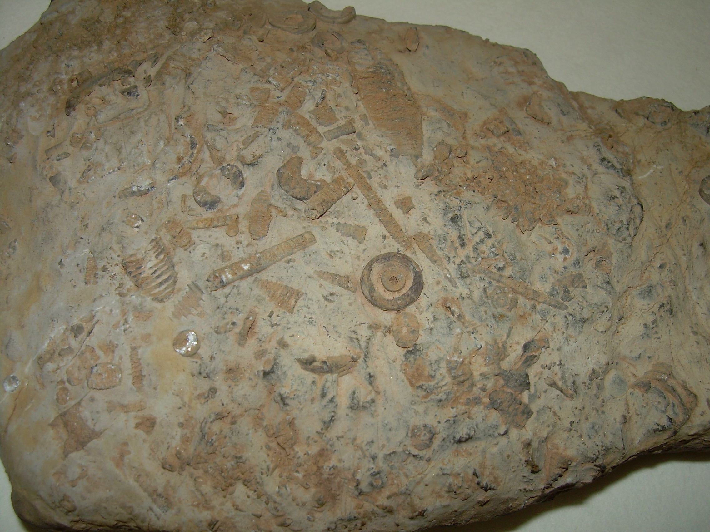 Limestone of crinoids in a laboratory of practices of the Faculty of Sciences of the University of Corunna.